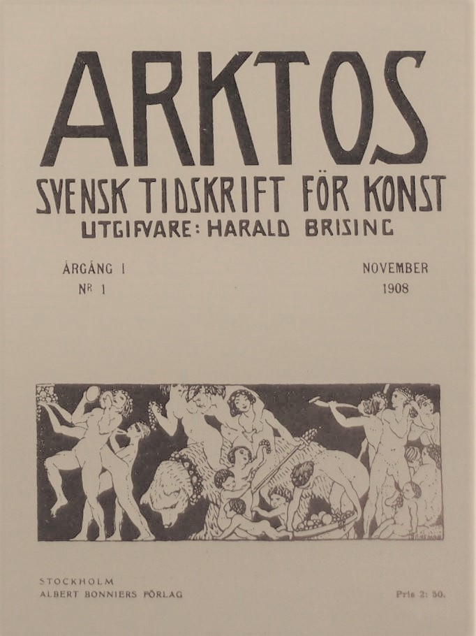 Cover of the first issue of the Swedish magazine for art, Arktos. The magazine was only published for two years, 1908-1908. Illustration by Axel Törneman (1880-1925)